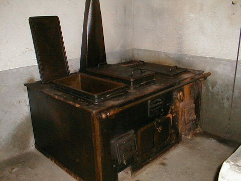 The troop kitchen at the Heidenbuckel Shelter